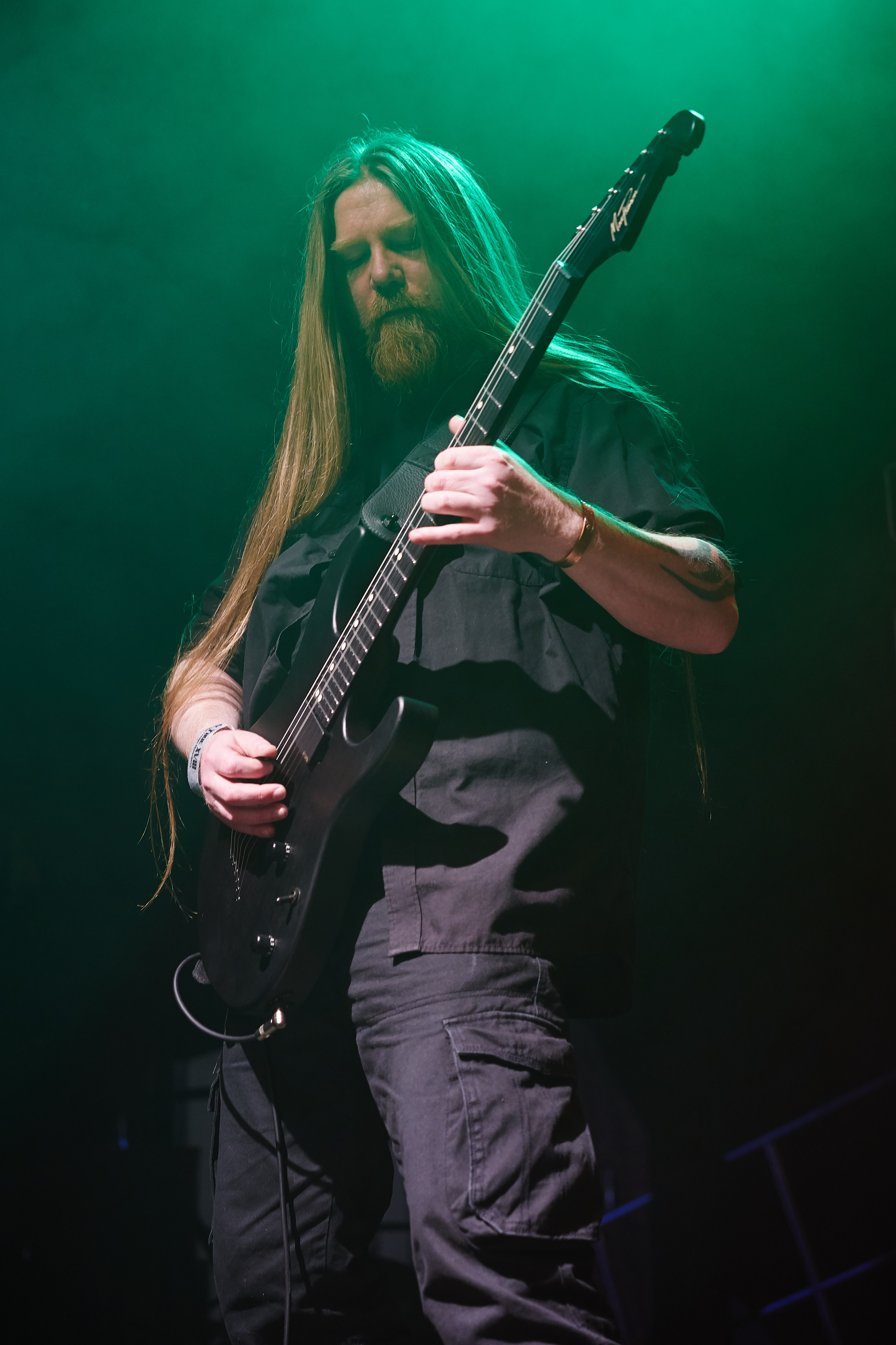 British band My Dying Bride at Hammer of Doom Festival, Würzburg, Posthalle, 21.11.2015 Festivalsommer This photo was created with the support of donations to Wikimedia Deutschland in the context of the CPB project "Festival Summer". Personality rights warning Although this work is freely licensed or in the public domain, the person(s) shown may have rights that legally restrict certain re-uses unless those depicted consent to such uses. In these cases, a model release or other evidence of consent could protect you from infringement claims.